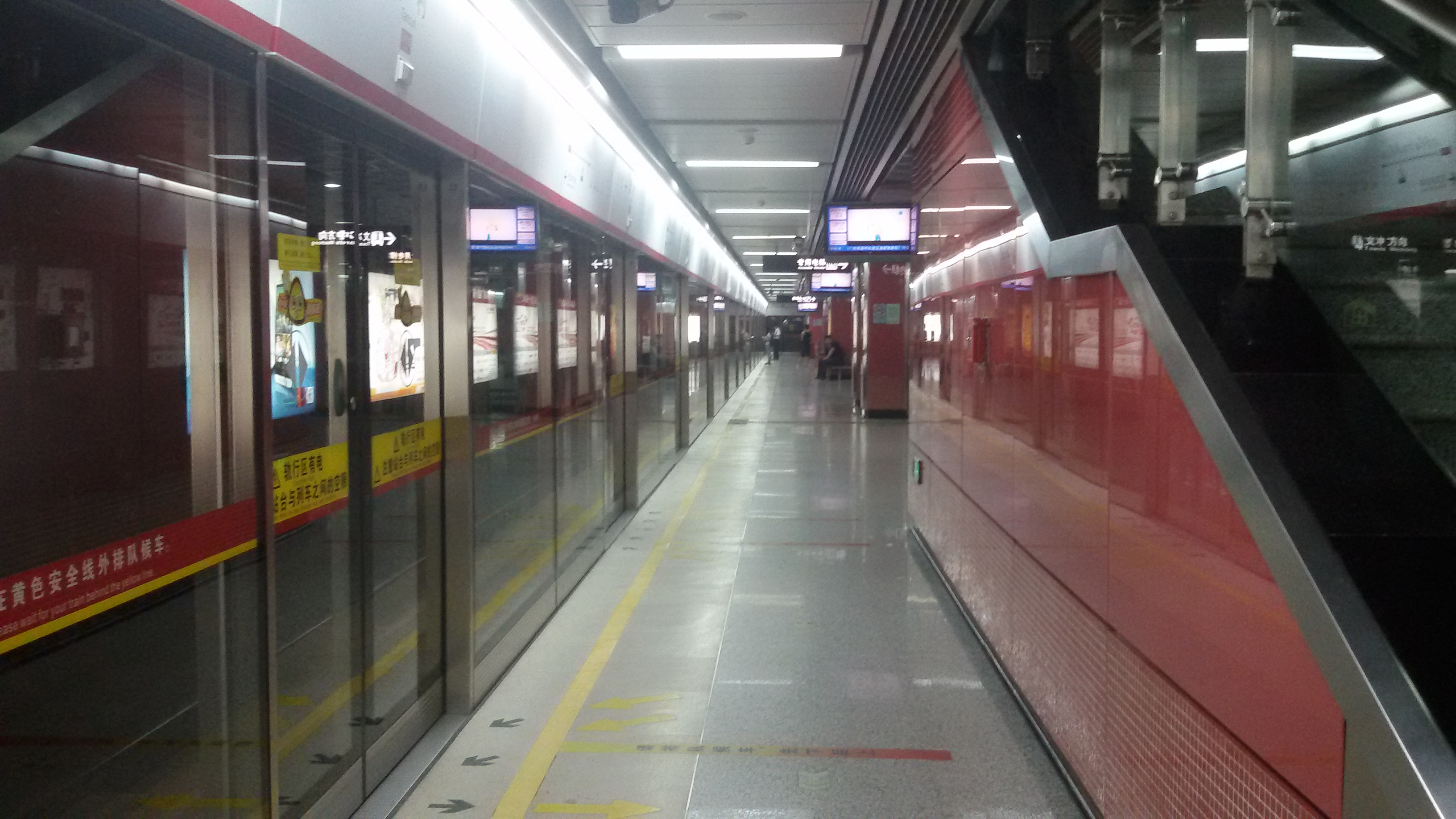 Station Platform for Tancun Station, Guangzhou Metro. 粵語: 廣州地鐵潭村站嘅站台